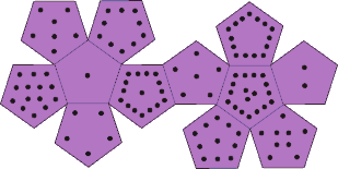 nontransitive dodecahedron D III